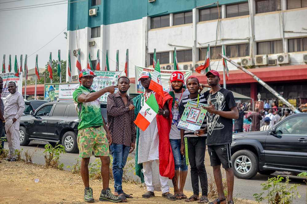 PDP supporters in Wadata plaza, Abuja